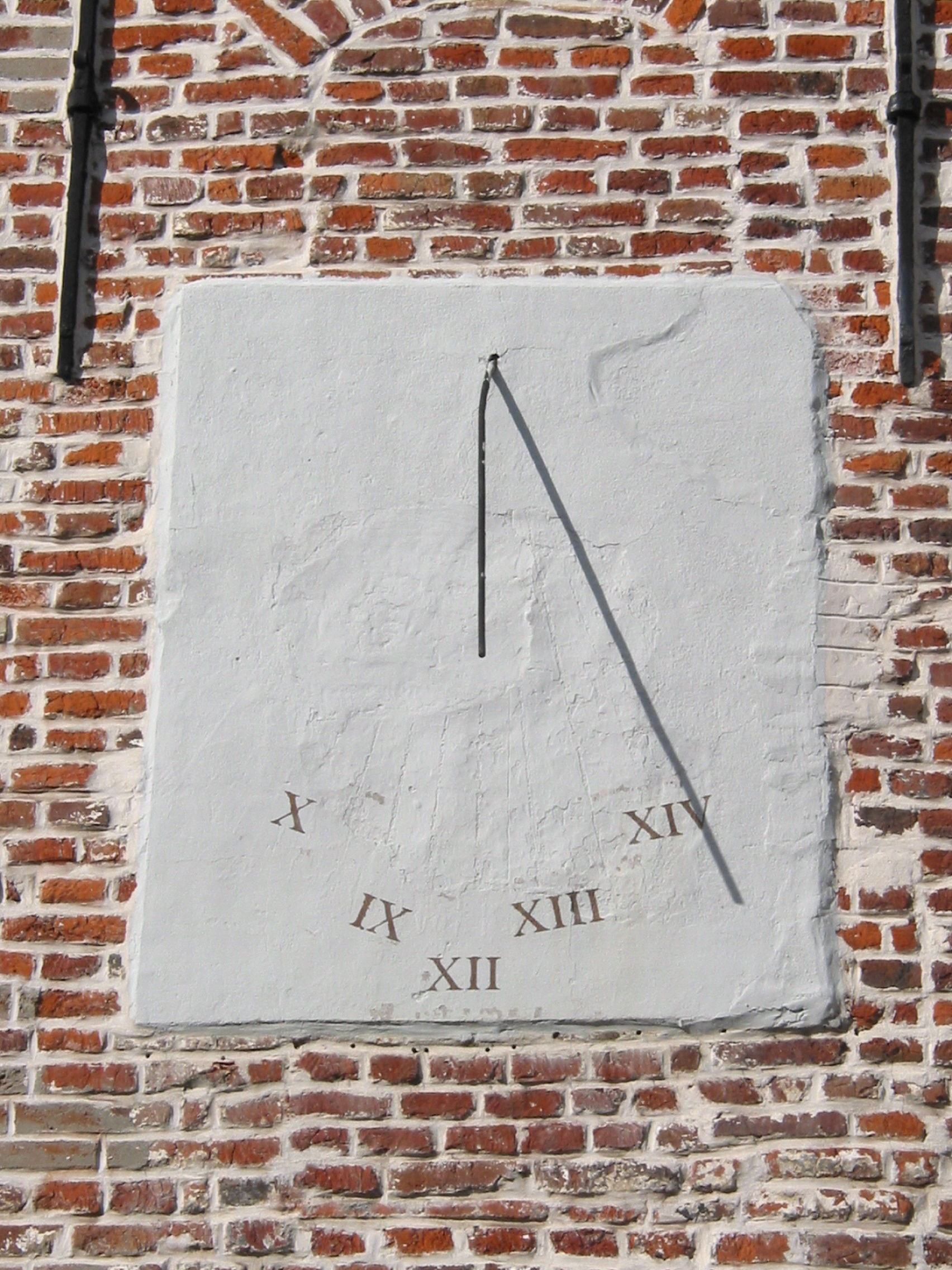 Mons (Belgium), rue Rachot - sundial.